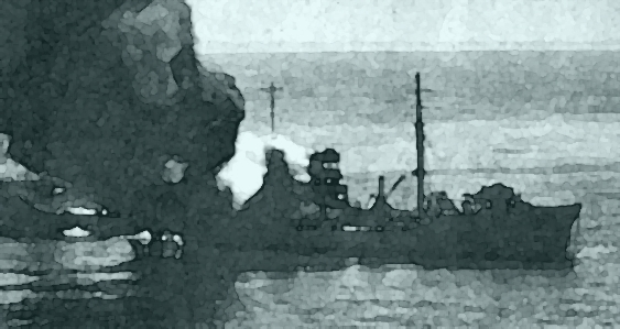 Derivative work from an original 1940 photograph of the Italian destroyer Oriani This work was created by the government of Italy, published prior to 1976, and has no known US copyright registration associated with it. It is now in the public domain in Italy and the United States and possibly elsewhere.64px|Public domain|left right|80px This is because according to Law of 22 April 1941 n. 633, revised by the law of 22 May 2004, n. 128 article 11, copyright in works created and published under the name and at the expense of the State shall belong to the State. According to article 29, the duration of the rights belonging to the State shall be twenty years from first publication, whatever the form in which publication was effected.